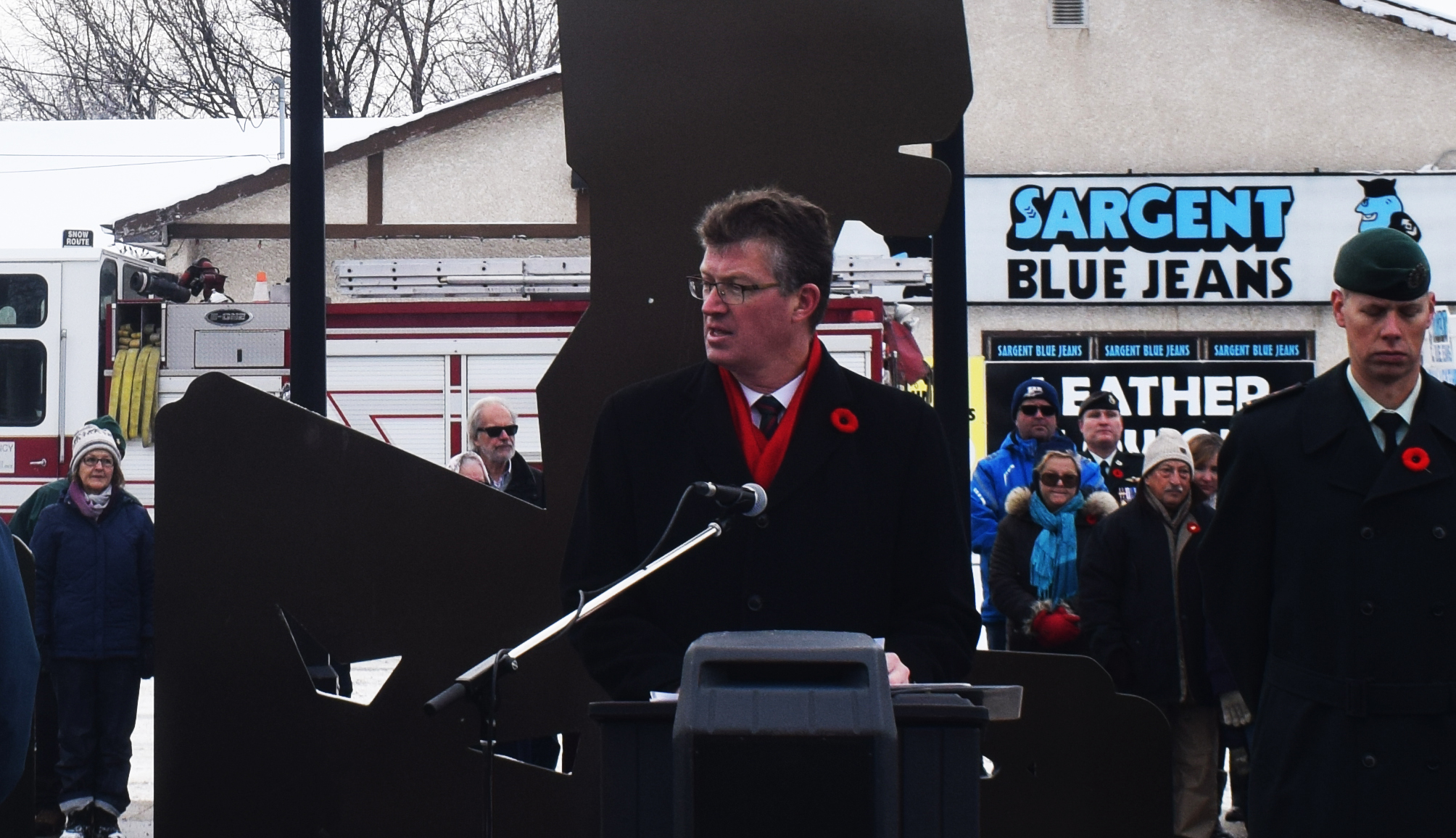 Andrew Swan at the 2017 Valour Road Remembrance Day Ceremony. Cropped from